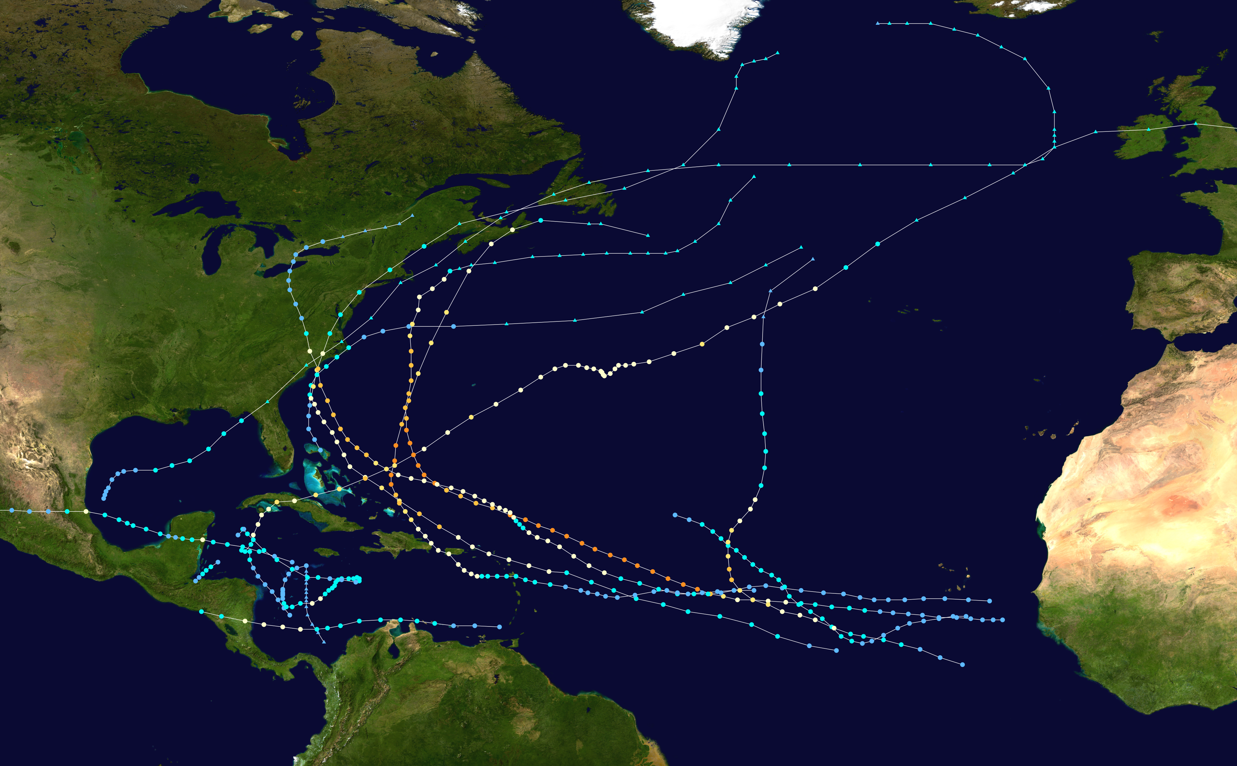 This map shows the tracks of all tropical cyclones in the 1996 Atlantic hurricane season. The points show the location of each storm at 6-hour intervals. The colour represents the storm's maximum sustained wind speeds as classified in the Saffir-Simpson Hurricane Scale (see below), and the shape of the data points represent the type of the storm. Saffir–Simpson scale Tropical depression≤38 mph≤62 km/h Category 3111–129 mph178–208 km/h Tropical storm39–73 mph63–118 km/h Category 4130–156 mph209–251 km/h Category 174–95 mph119–153 km/h Category 5≥157 mph≥252 km/h Category 296–110 mph154–177 km/h Unknown Storm type Tropical cyclone Subtropical cyclone Extratropical cyclone / Remnant low / Tropical disturbance / Monsoon depression